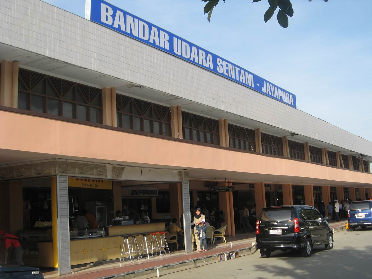 Sentani Airport of Jayapura